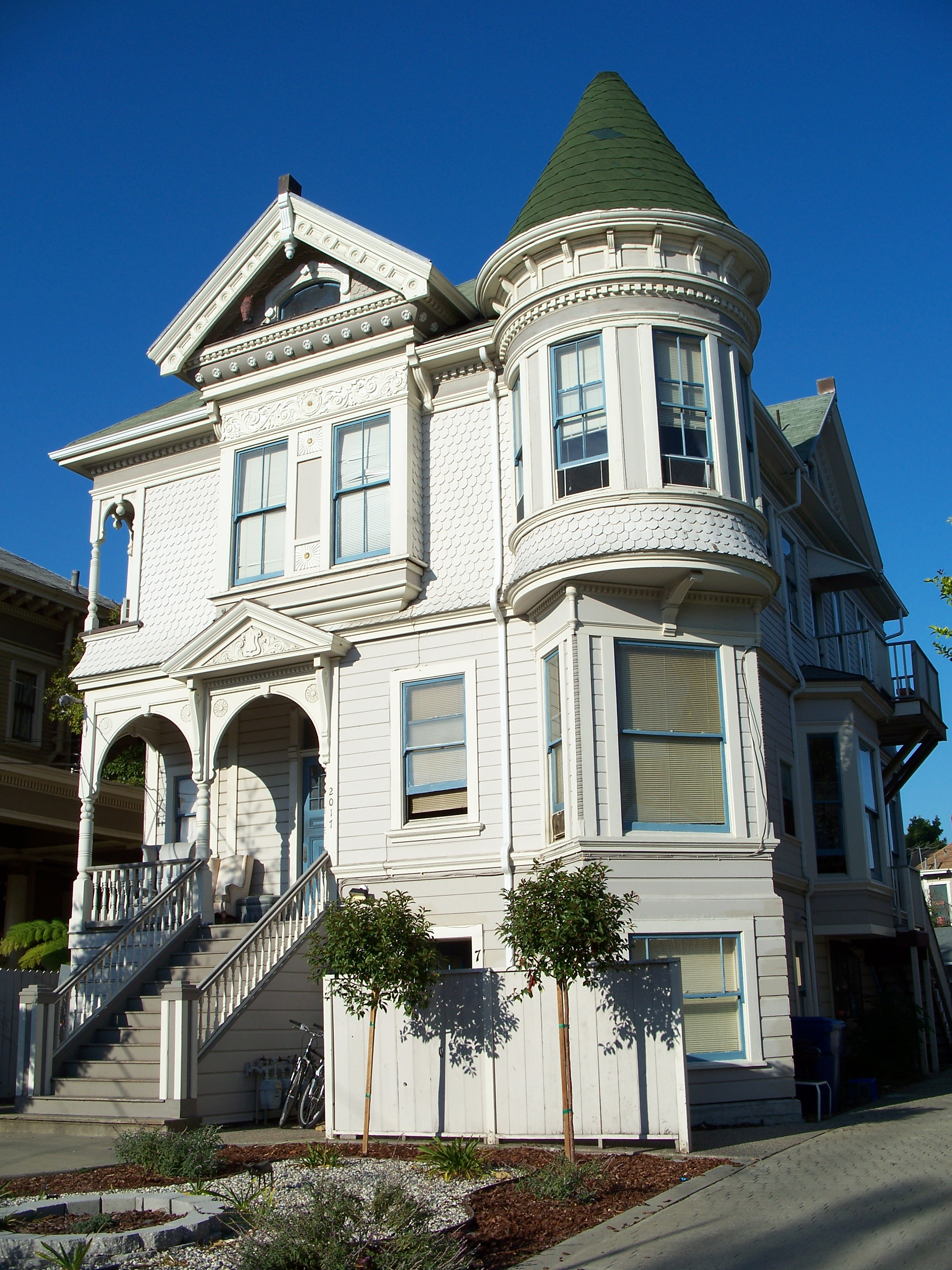 2017 San Antonio Avenue. Alameda, California, USA